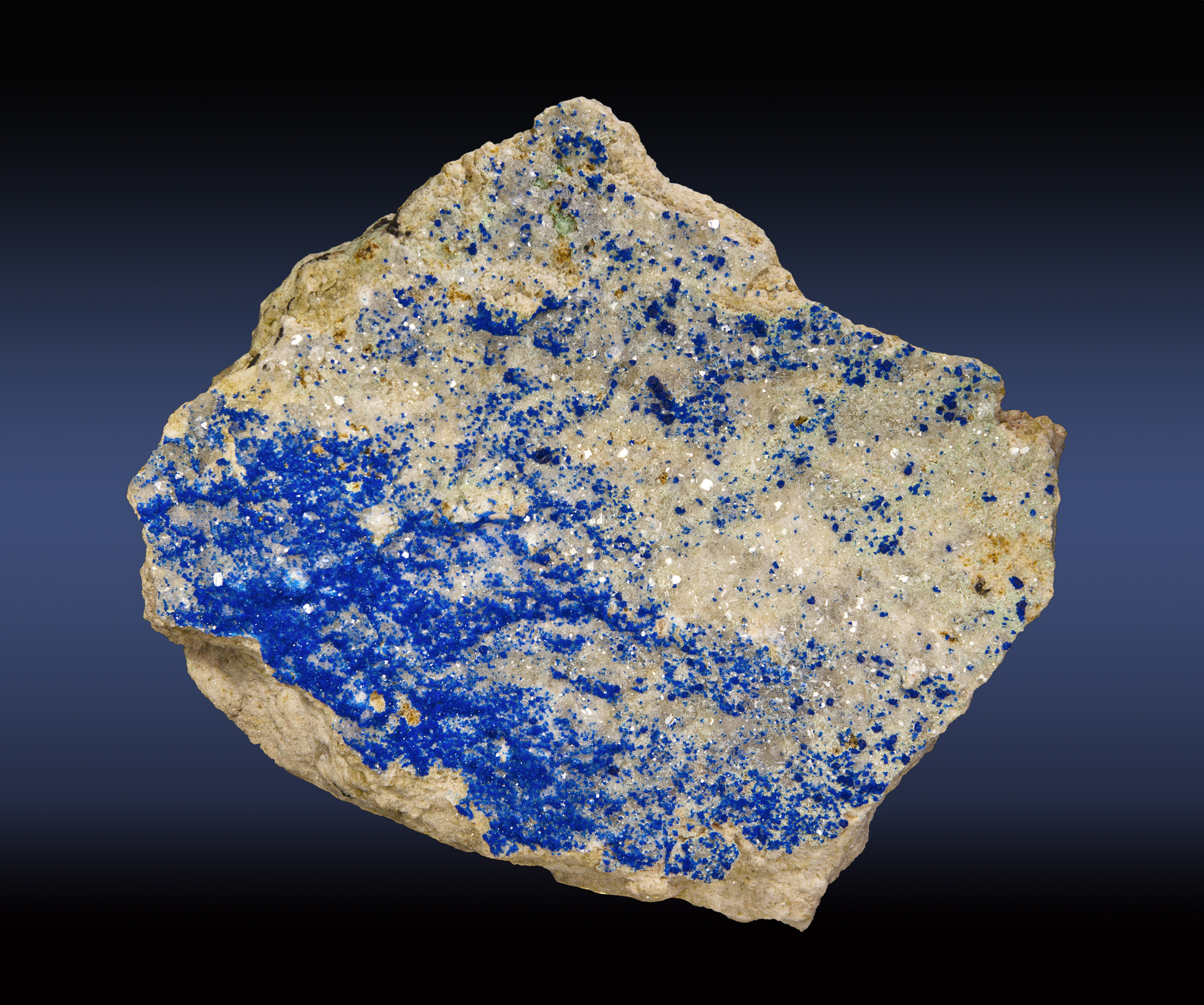 Kinoite Locality: Christmas Mine (Red Bird shafts; Inspiration Mine; Hackberry shafts), Christmas, Christmas area, Banner District, Dripping Spring Mts, Gila County, Arizona, USA Size: 7.6×70×3.5 cm.